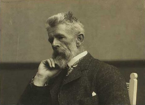 Laurits Tuxen (1853-1927)